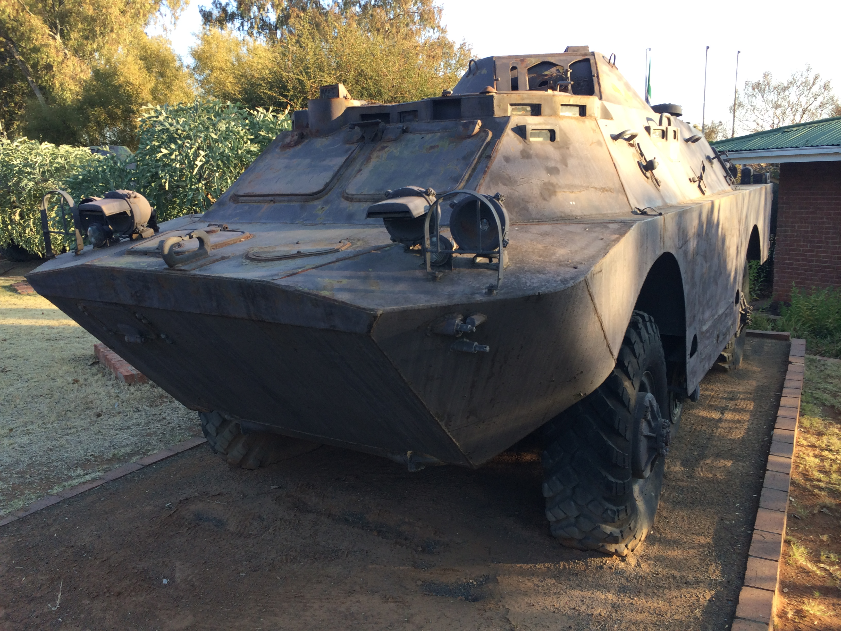 BRDM-2 at 1 Tank Regiment, Tempe Base - Bloemfontein. Late of the Armed Forces for the Liberation of Angola (FAPLA).